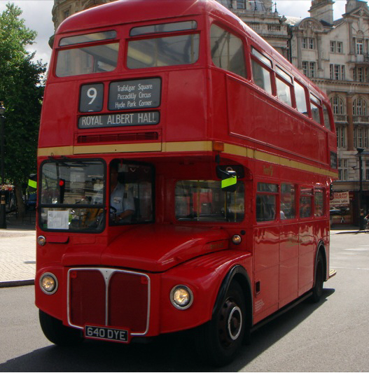 First London Routemaster bus RM1640 (reg. 640 DYE) operating London Buses heritage route 9, pictured in Trafalgar Square heading west past the statue of Charles I, en-route to the Royal Albert Hall.